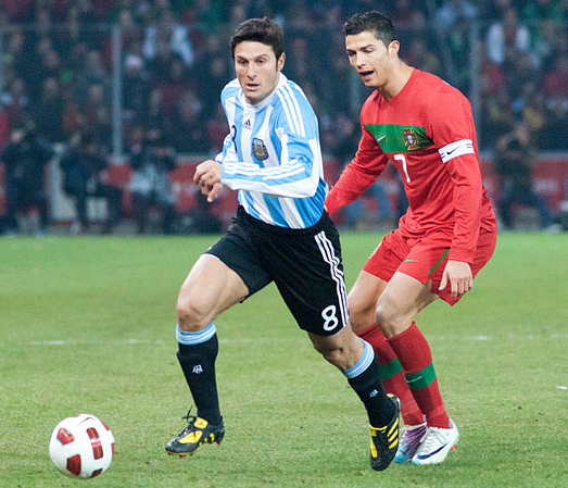 Portugal vs. Argentina, 9th February 2011: Javier Zanetti (Left), Cristiano Ronaldo (Right)